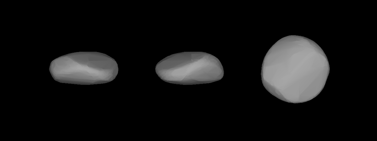 A three-dimensional model of 471 Papagena that was computed using light curve inversion techniques.